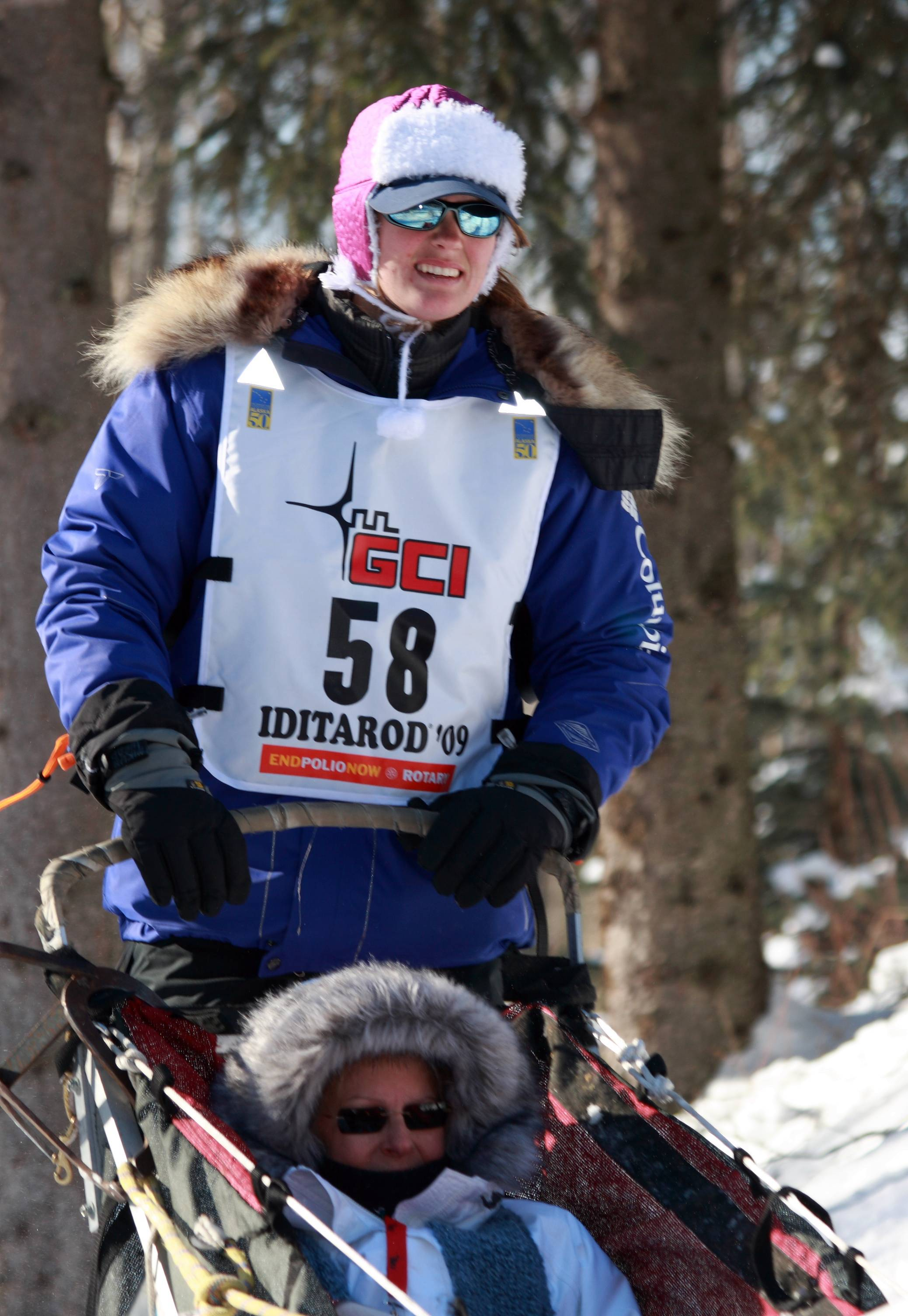 I took these photos on 8 March 2009 at the ceremonial start of the Iditarod sled dog race in Anchorage, Alaska. This was the 37th running of The Last Great Race. I get a thrill out of each race - the dogs were born to run and it is another thing that makes me proud to be an Alaskan! Note: for the ceremonial run the mushers have paying passengers - I think they are called Iditariders - these people bid on a chance to go on the ceremonial run. The actual Iditarod starts from Willow, Alaska, on the day after the ceremonial start, minus the Iditariders.